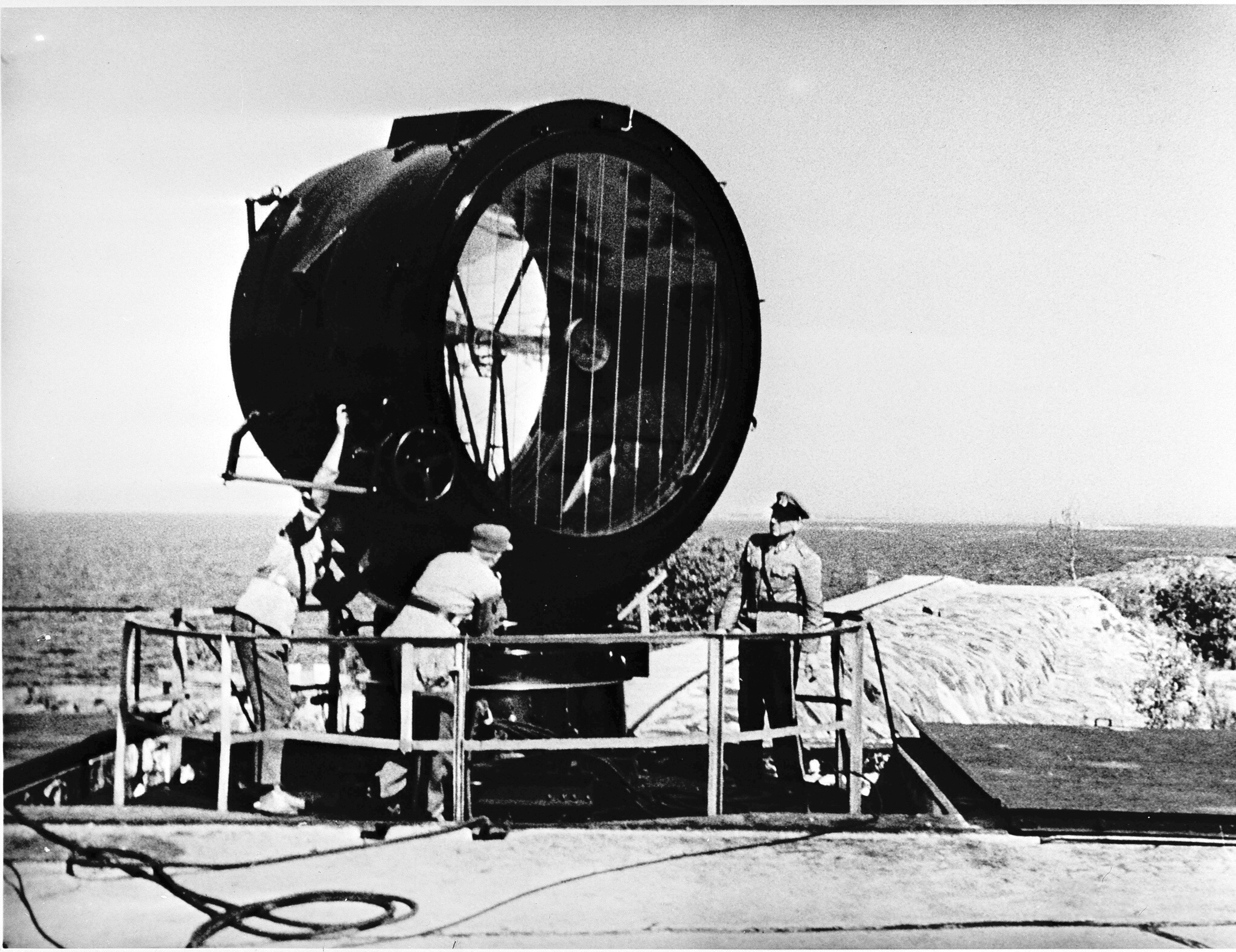 Searchlight on Rysäkari Island, Helsinki